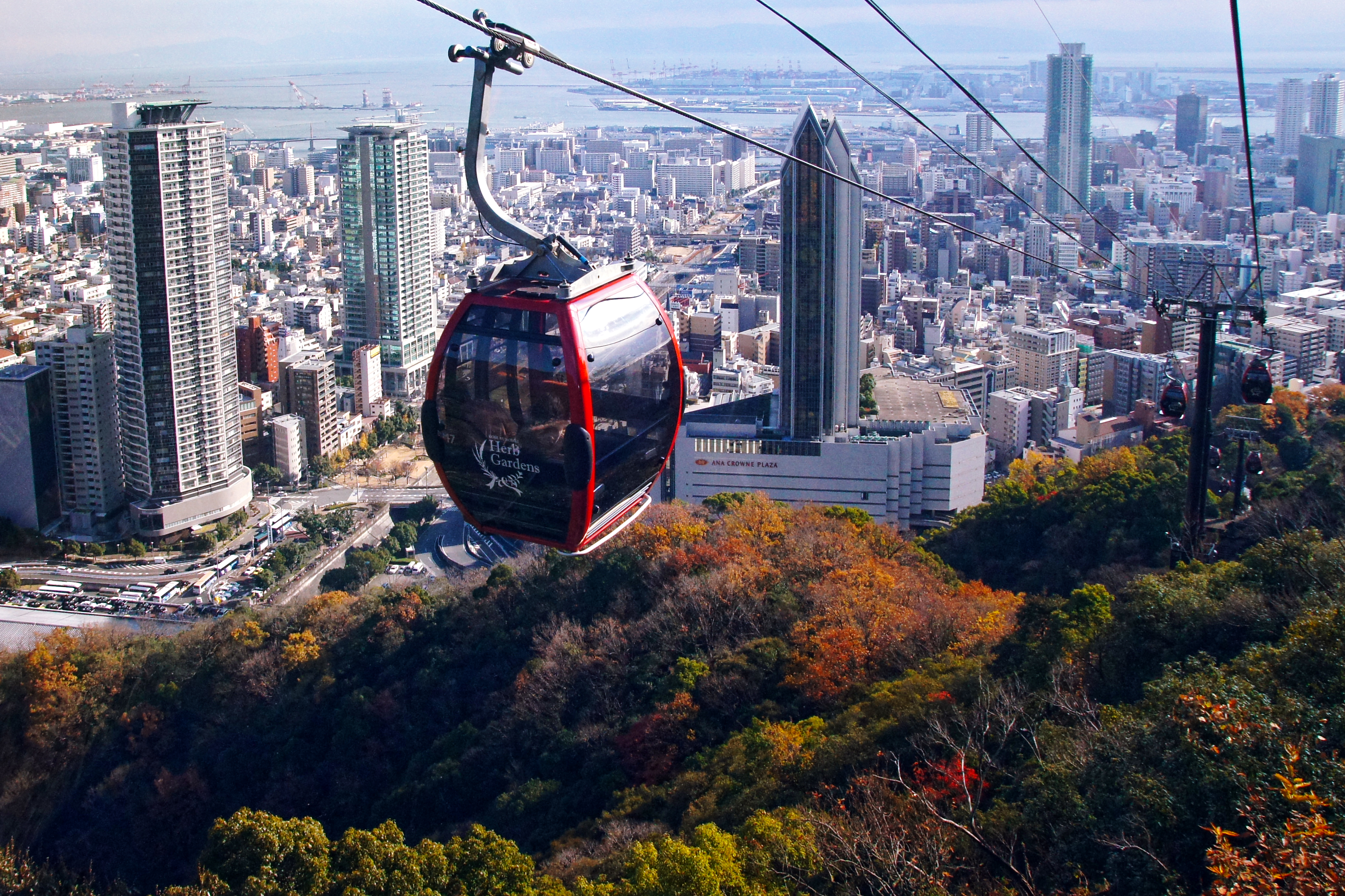 Kobe-Nunobiki Ropeway in Kobe, Hyogo prefecture, Japan.